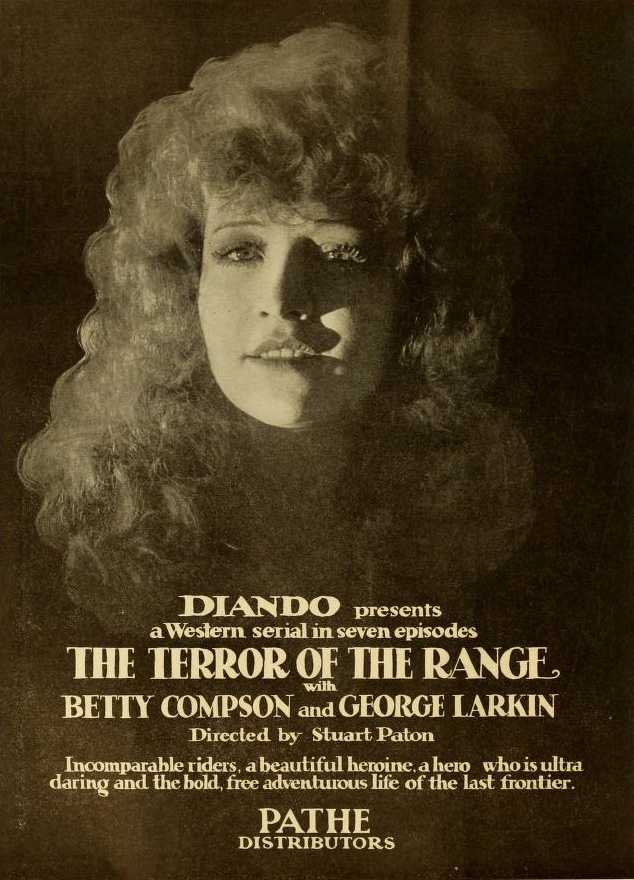 Advertisement in The Moving Picture World for the American western film serial Terror of the Range (1919).